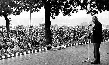 Egon Kjerrman at Allsång på Skansen 1963.